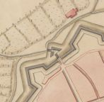 Fortifikation of Sluck, Belarus